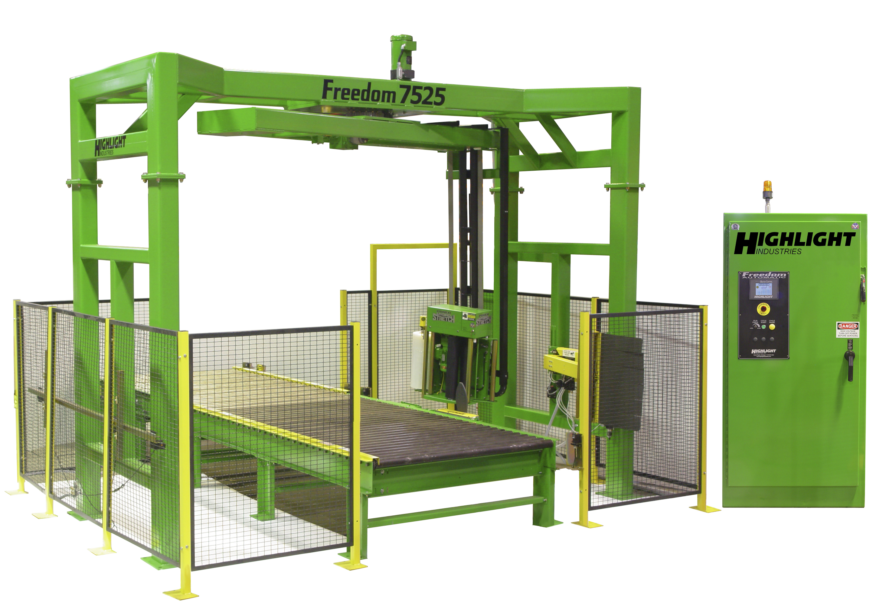 A fully-automatic rotary-arm stretch wrapping machine; the Freedom 7525 from Highlight Industries.